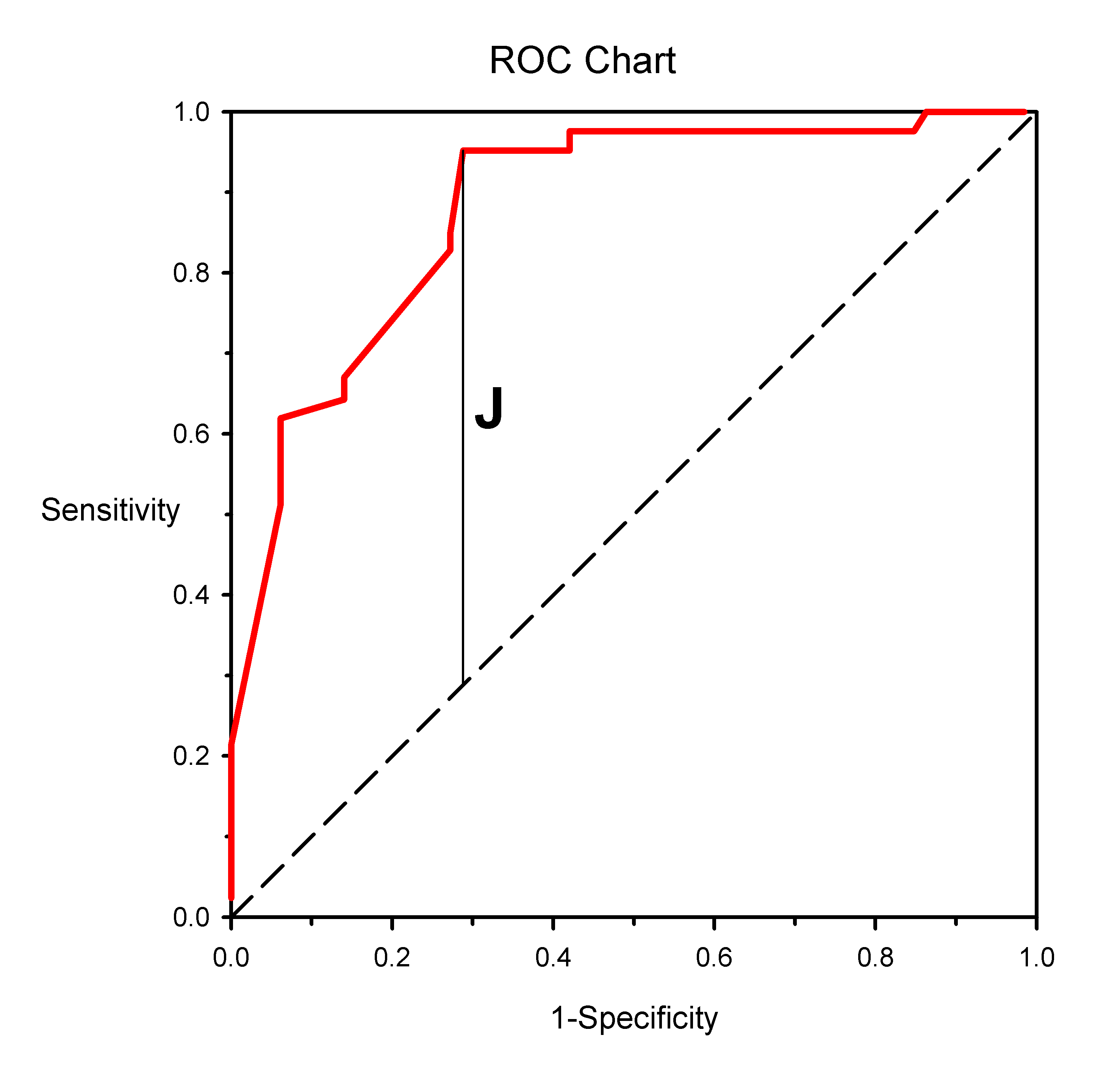 Receiver Operating Characterisitc Curve showing Youden's Index